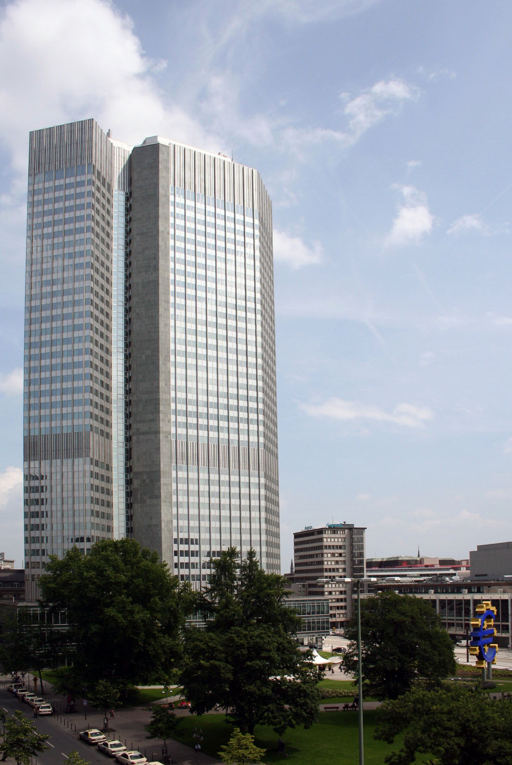 The Tower of the European Central Bank at Willy-Brandt-Platz in Frankfurt am Main. To the right there is a sculpture showing the Euro Sign.